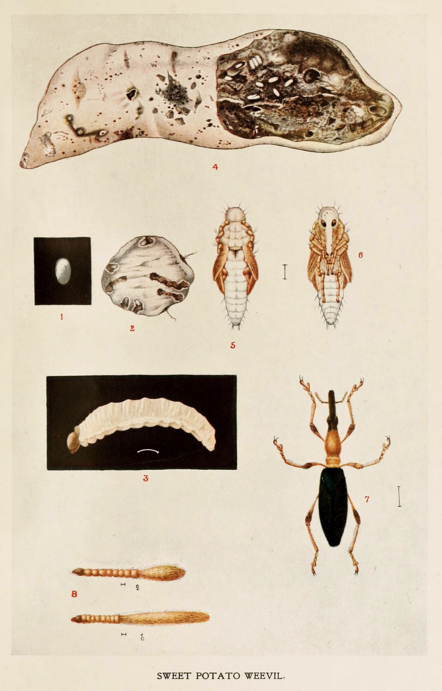 Picture from book Indian Insect Life: a Manual of the Insects of the Plains by Harold Maxwell-Lefroy.